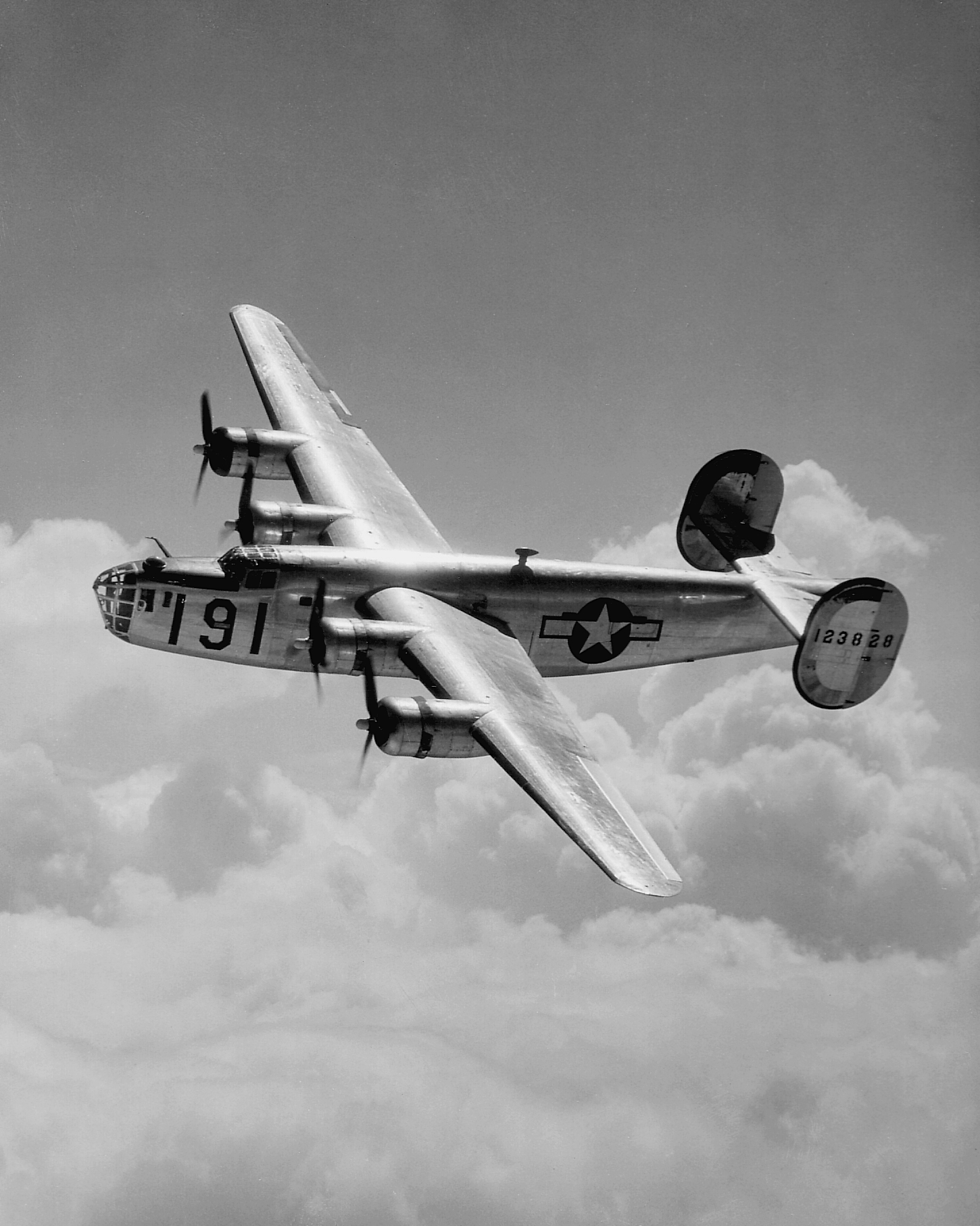 A Consolidated B-24 Liberator 1940's -- A Consolidated B-24 Liberator from Maxwell Field, Alabama, four engine pilot school, glistens in the sun as it makes a turn at high altitude in the clouds. Heavy Bombers. (U.S. Air Force photos) [1]